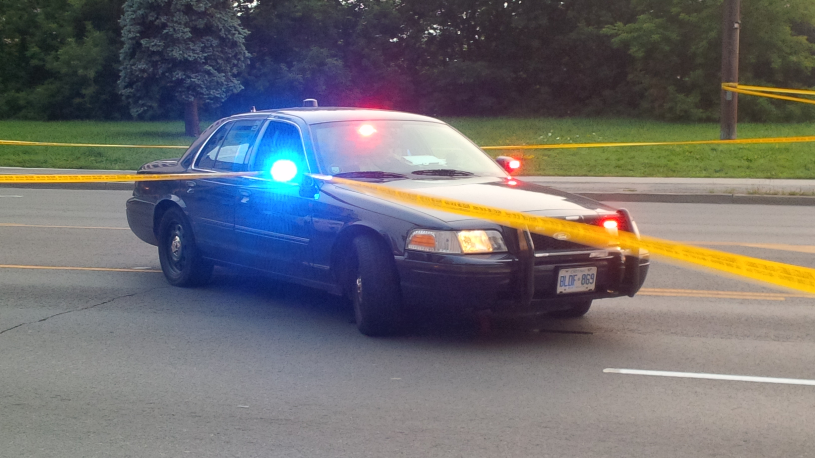 Unmarked police cruiser with lights